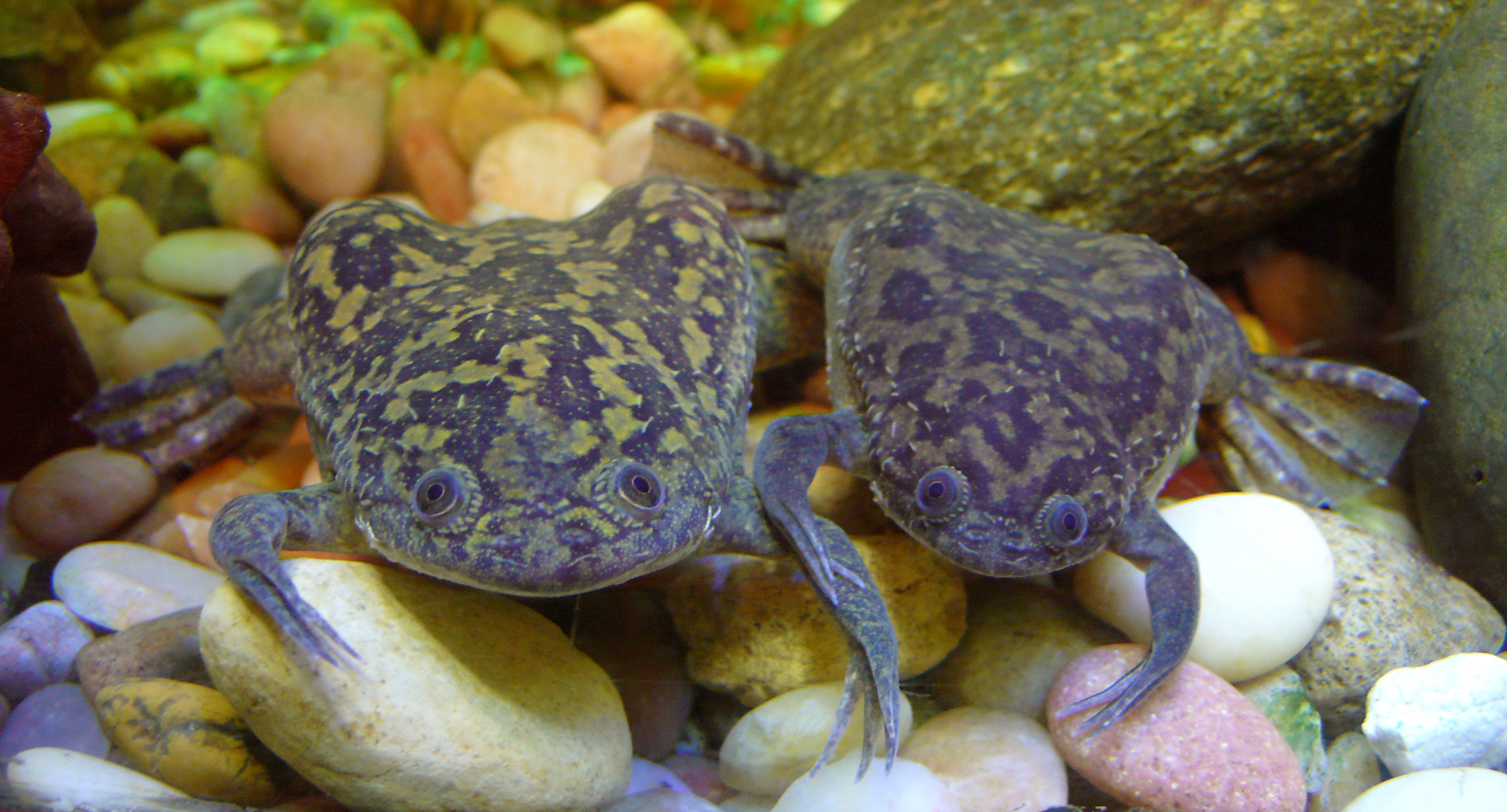 African clawed frogs (Xenopus laevis)